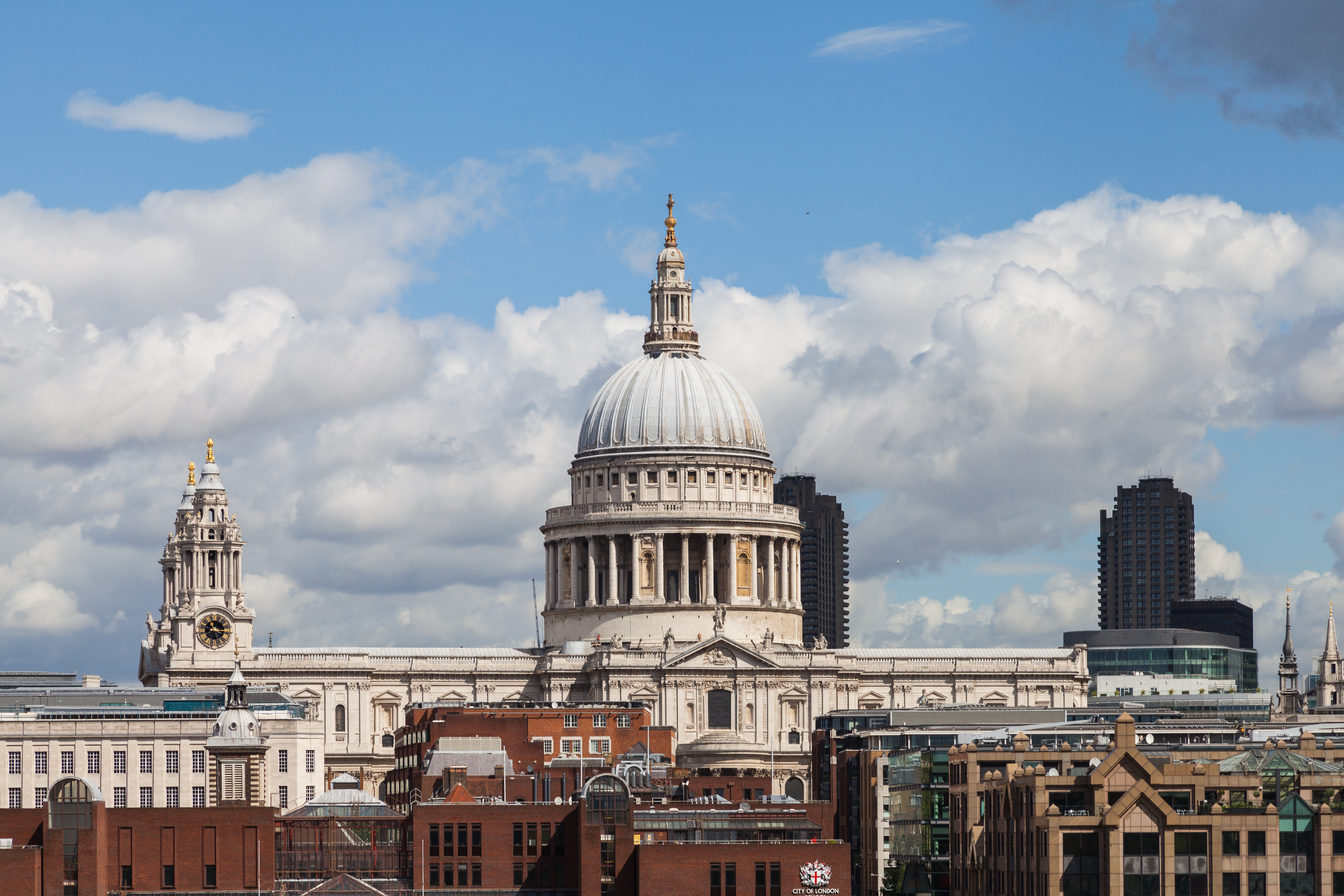 St Paul's Cathedral, London, England